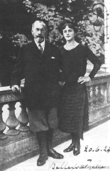 Vladimir Nikolaevich Orlov (1869—1927) russian general with 2-nd wife